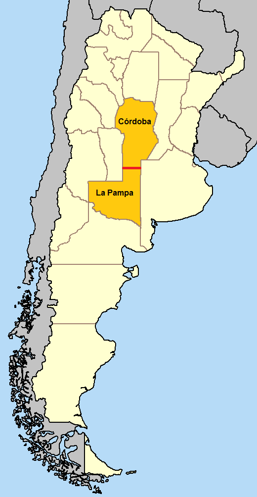 Map showing the location of the 35th parallel south, defining the border between Argentinian provinces This map violates legal regulations Argentina: Ley de la Carta [Law No. 22963].